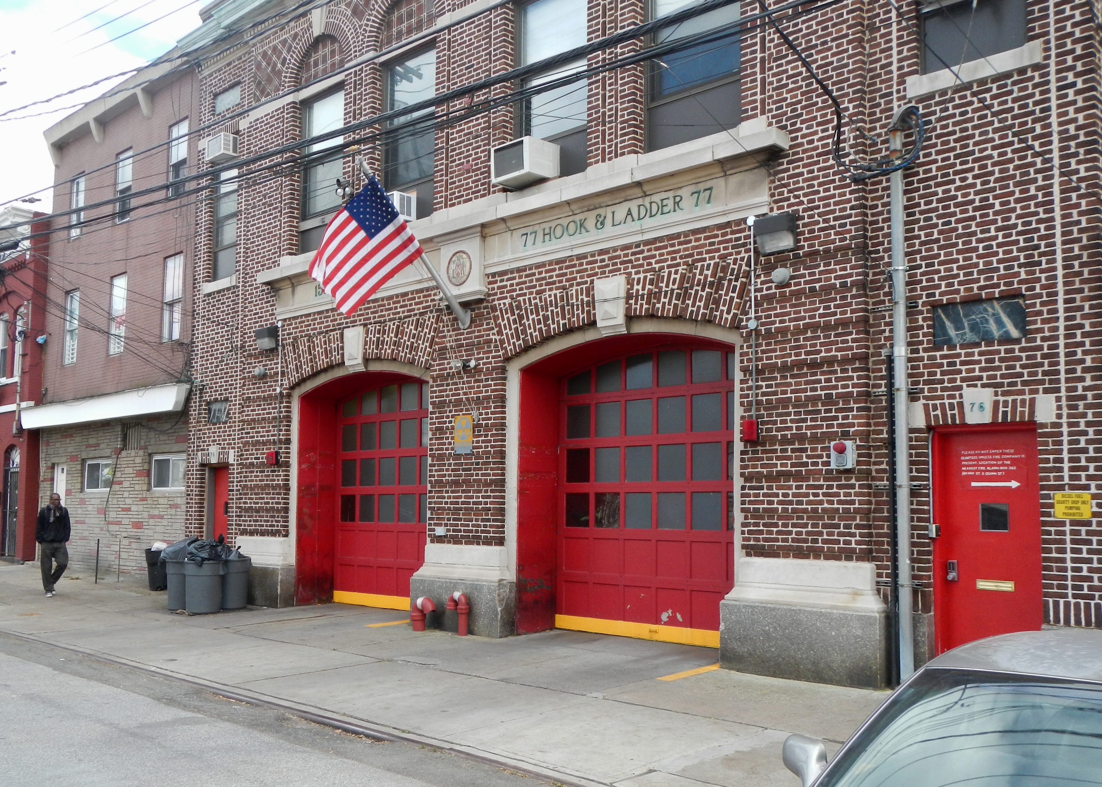 Looking east at firehouse in Stapleton on a cloudy midday.